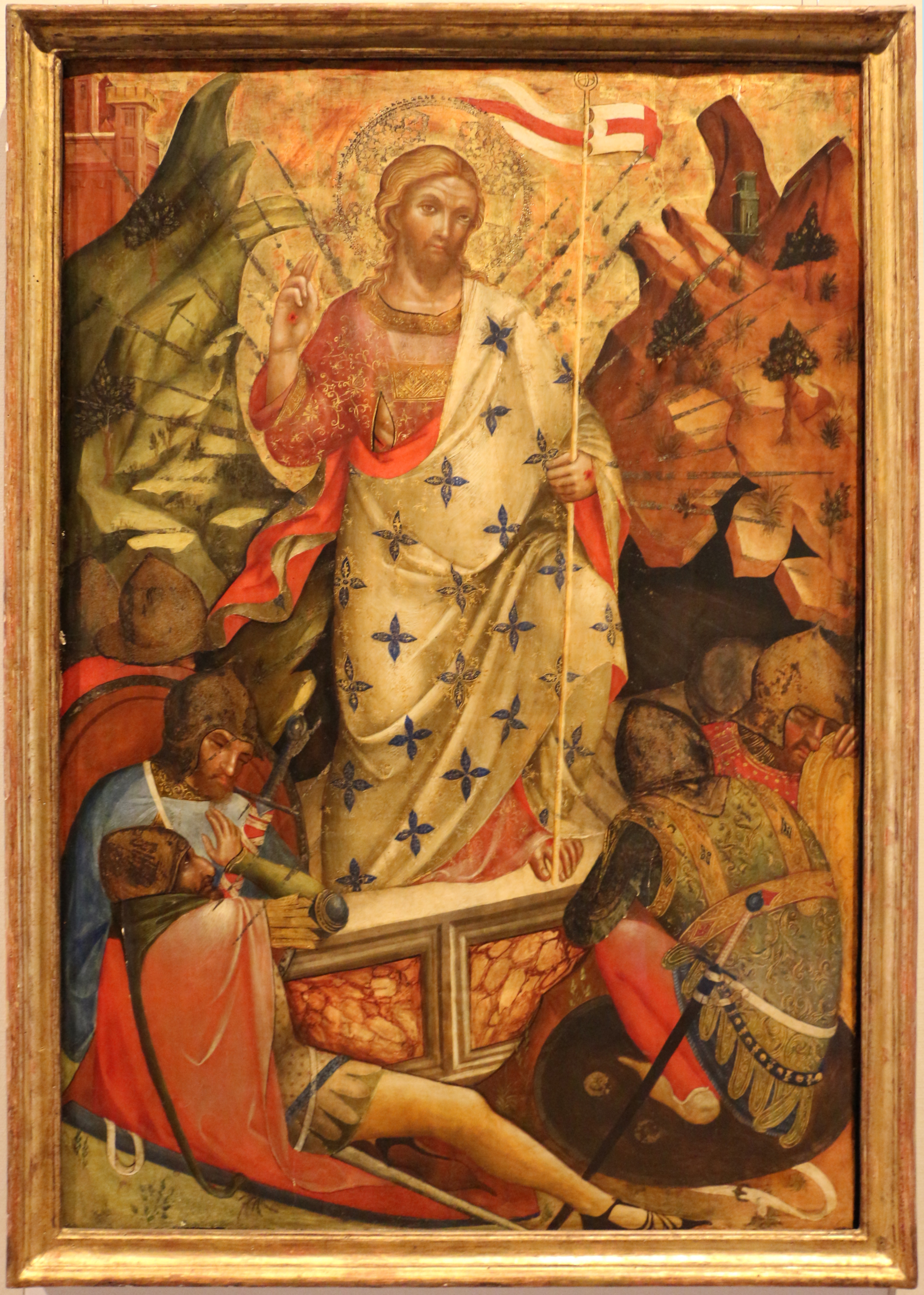 Pinacoteca del Castello Sforzesco